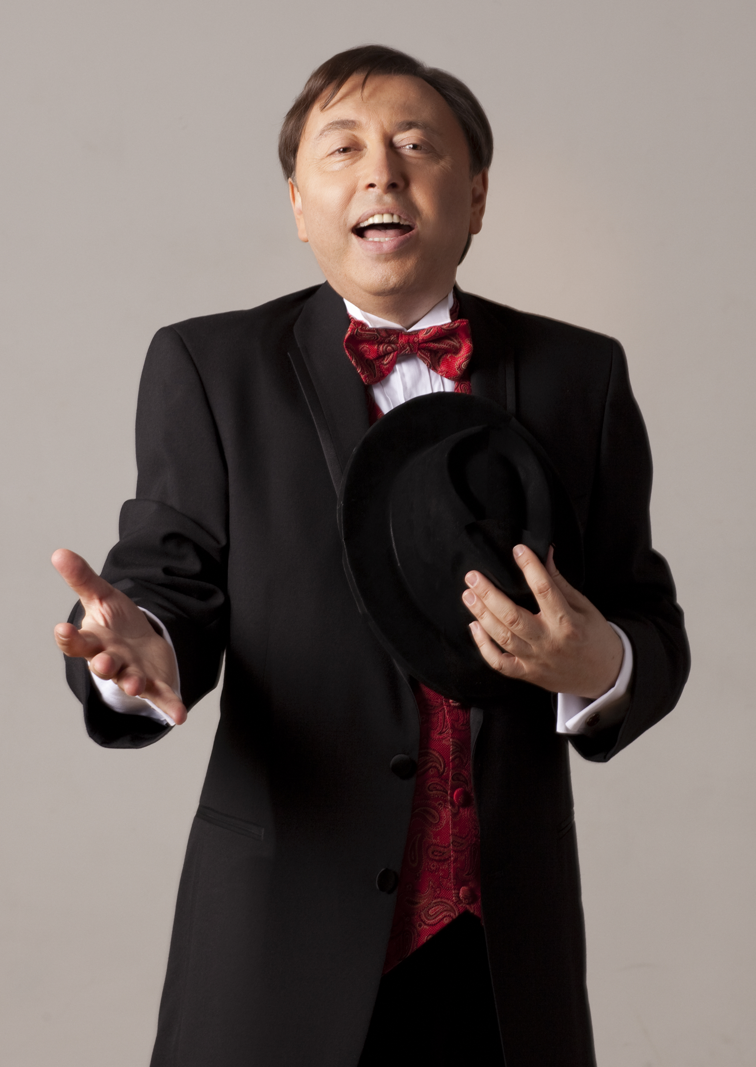 OlegFrish2